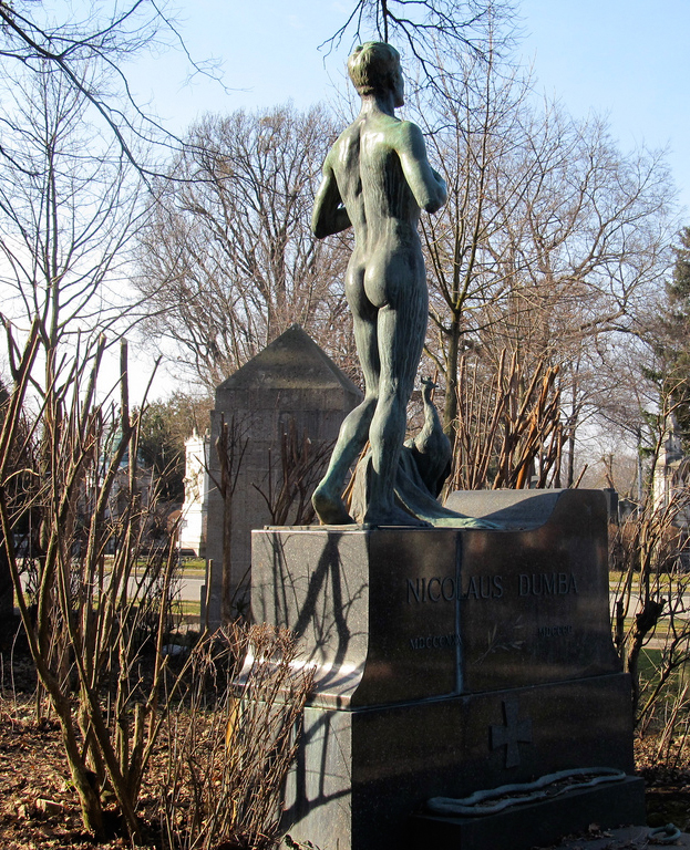 Dumba-Zentralfriedhof3